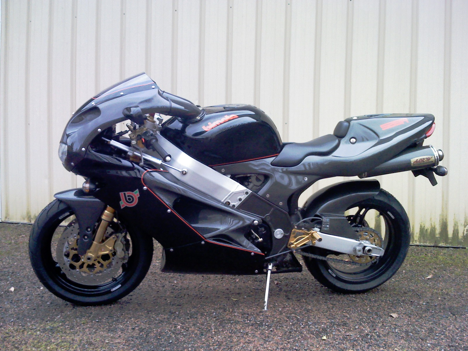 Bimota SB8 RS